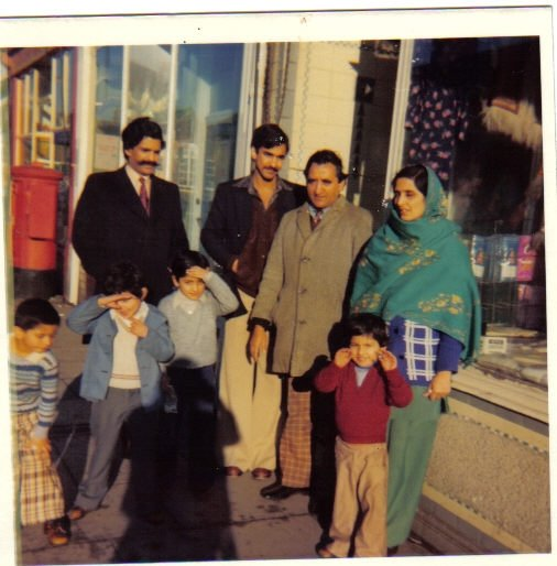 Sudhan family in the northern town of Scunthorpe, UK